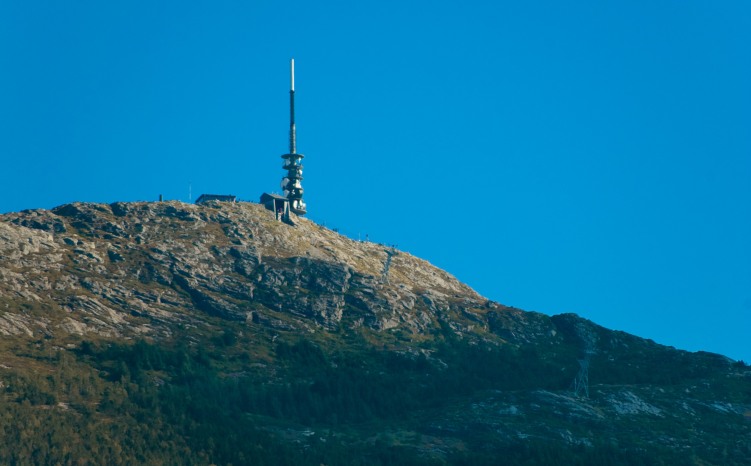 The telecommunication tower atop mount Ulriken in Bergen, Norway.